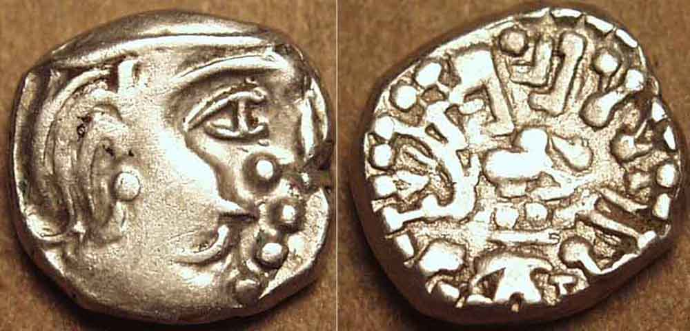 Silver coin (known as rupaka) of Krishnaraja Kalachuri (c. 550-575)